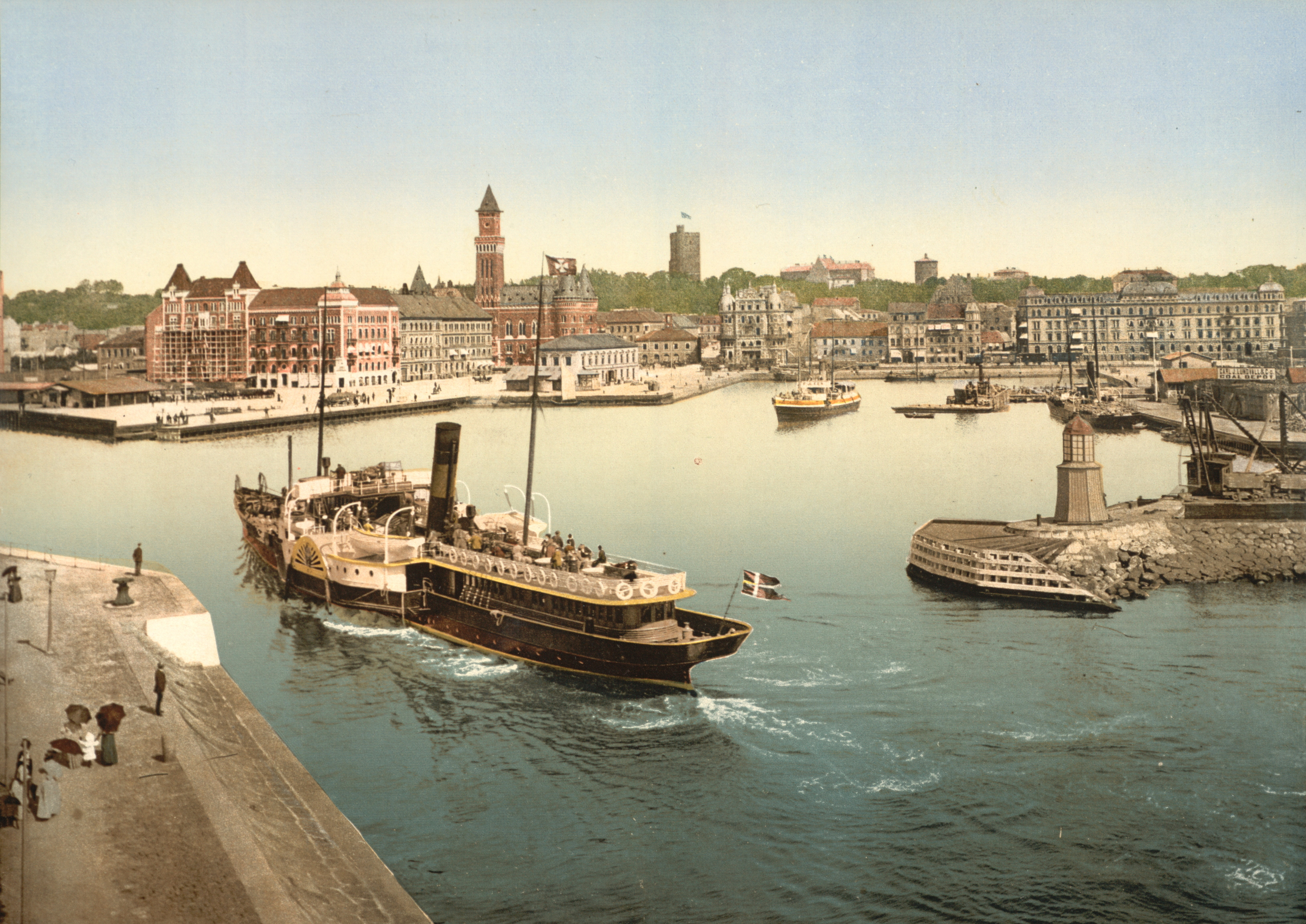 [Copenhagen, Helsingborg, Sweden] 1897 1 photomechanical print : photochrom, color. Notes: Photo shows a paddle steamer, named Gefion or Gylfe, in the Helsingborg harbor. (Source: Flickr Commons project, 2009) Title devised by Library staff based on information from the Flickr Commons, 2009. Former title with misidentified place names came from the Detroit Publishing Co., catalogue J, foreign section. Detroit, Mich. : Detroit Publishing Company, c1905: "Copenhagen, Helsingborg, Denmark." Date based on the completion of the city hall construction in December 1896, visible with clock tower. (Source: Flickr Commons project, 2009) Print no. 6386. Forms part of: Landscape and marine views of Norway and Sweden in the Photochrom print collection. Subjects: Sweden--Helsingborg. Format: Photochrom prints--Color--1890-1900. Repository: Library of Congress, Prints and Photographs Division, Washington, D.C. 20540 USA, Part Of: Landscape and marine views of Norway and Sweden (DLC) 2001699563 More information about the Photochrom Print Collection is available at Persistent URL: Call Number: LOT 13432, no. 022a [item]